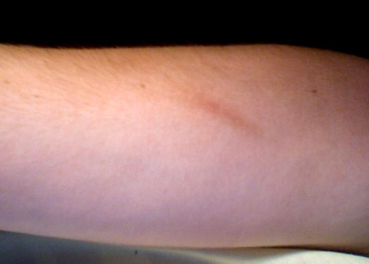 Very minor scarring from a moderately deep cut to the upper forearm, approximately a year after the wound.